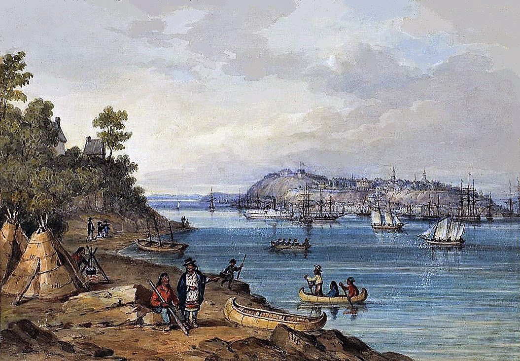 View of Quebec From Point Lévis